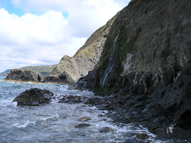 Tresaith, Ceredigion, Wales. The waterfall at Tresaith in west Wales. I was told at the time of taking the photo that during WW2 a German u boat was anchored about 200m off the coast here and they used to get their water from the waterfall.